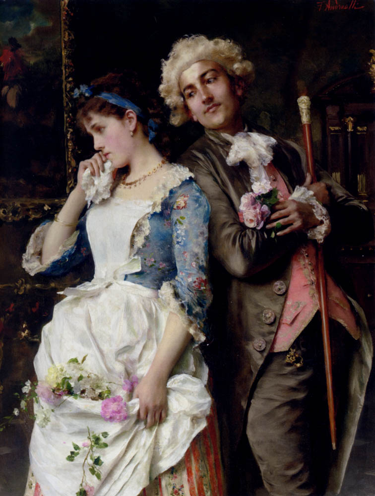 The Persistent Suitor